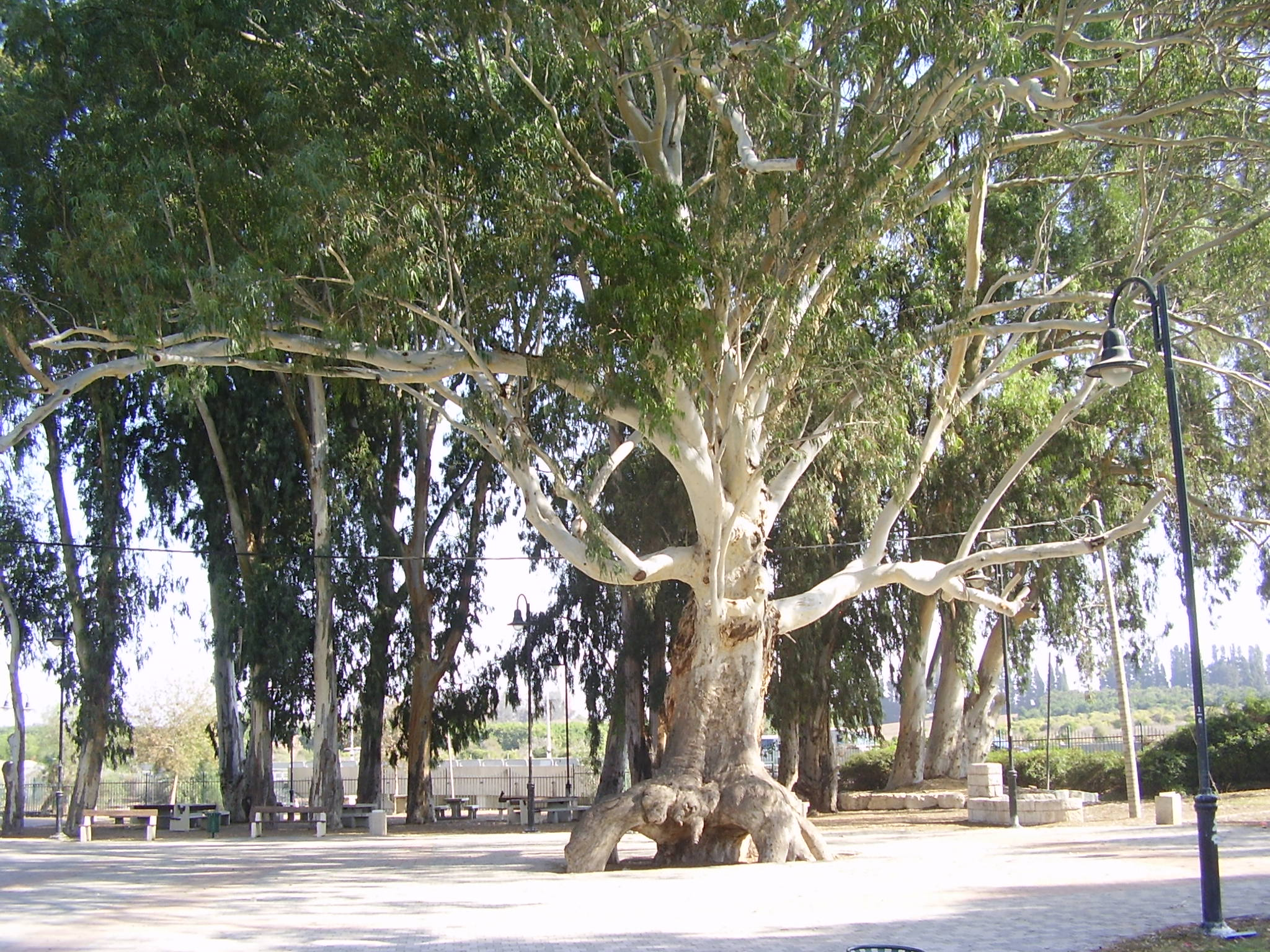 eucalyptus in or-akiva